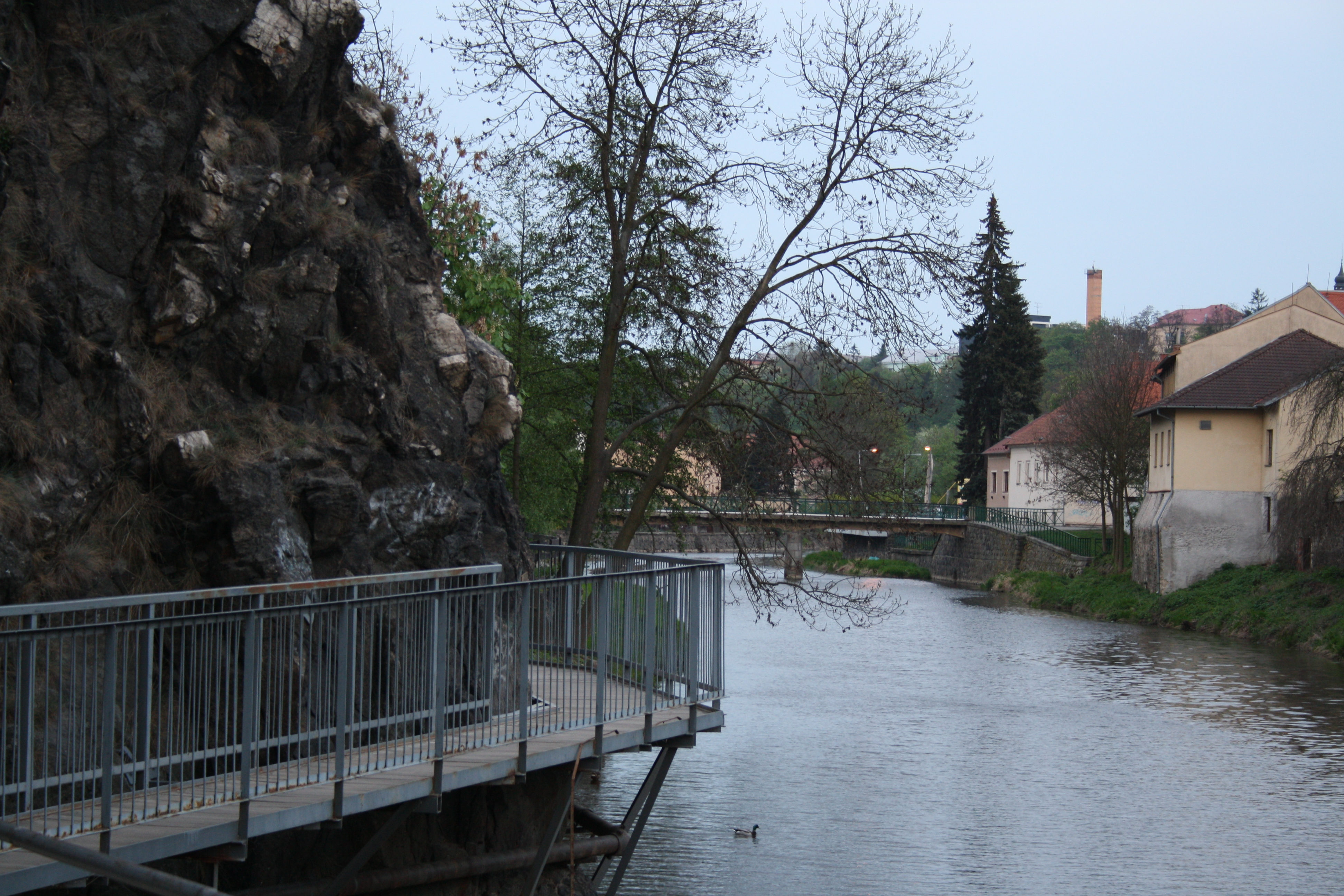 Footbridge in the Třebíč, Zámostí.